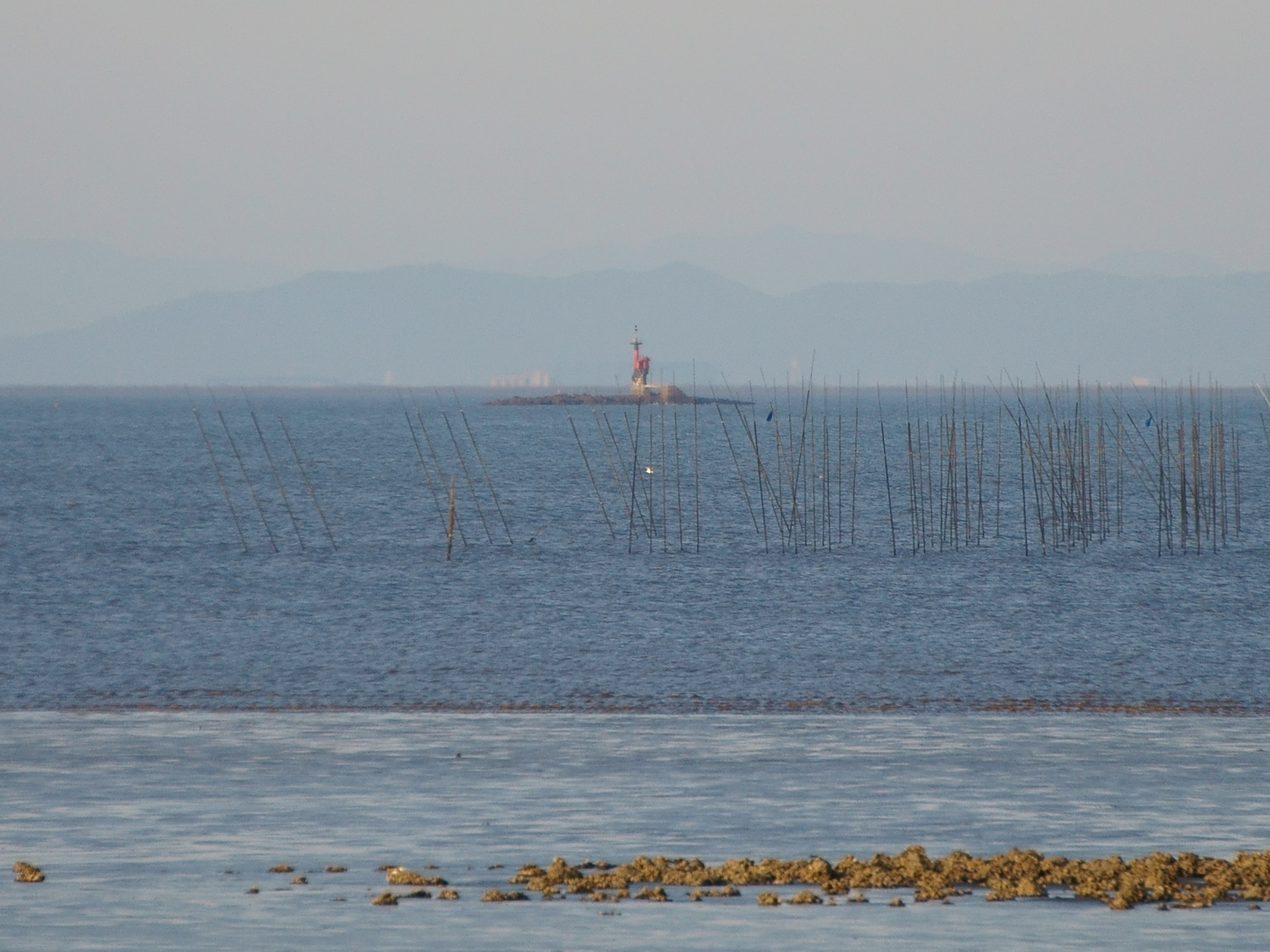 Okinoshima Reef in Ariake Sea, taken from Tara town, Saga prefecture. There is a red colored light beacon and a bridge.